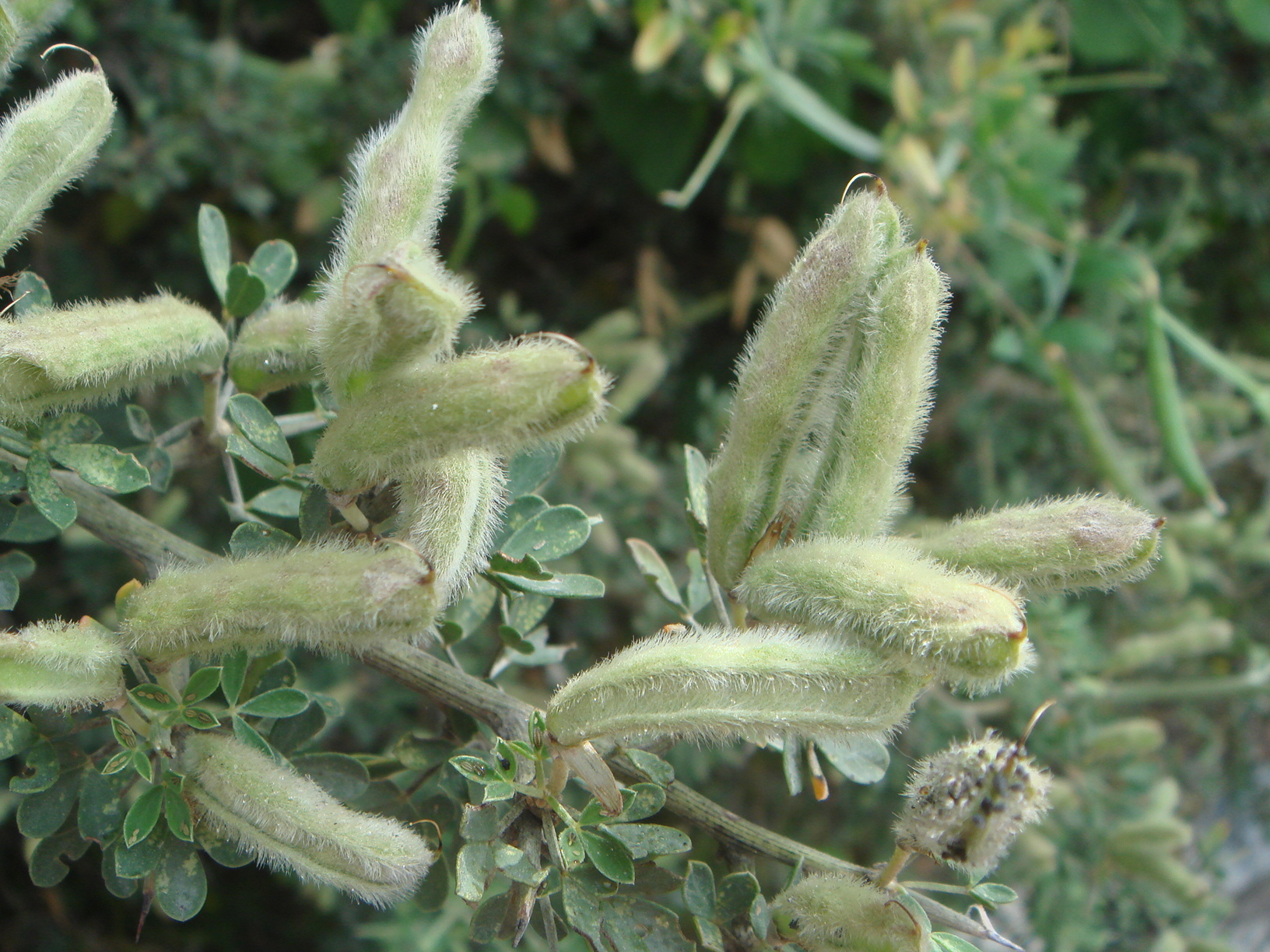 Hairy thorny broon, Spain, Ceuta.